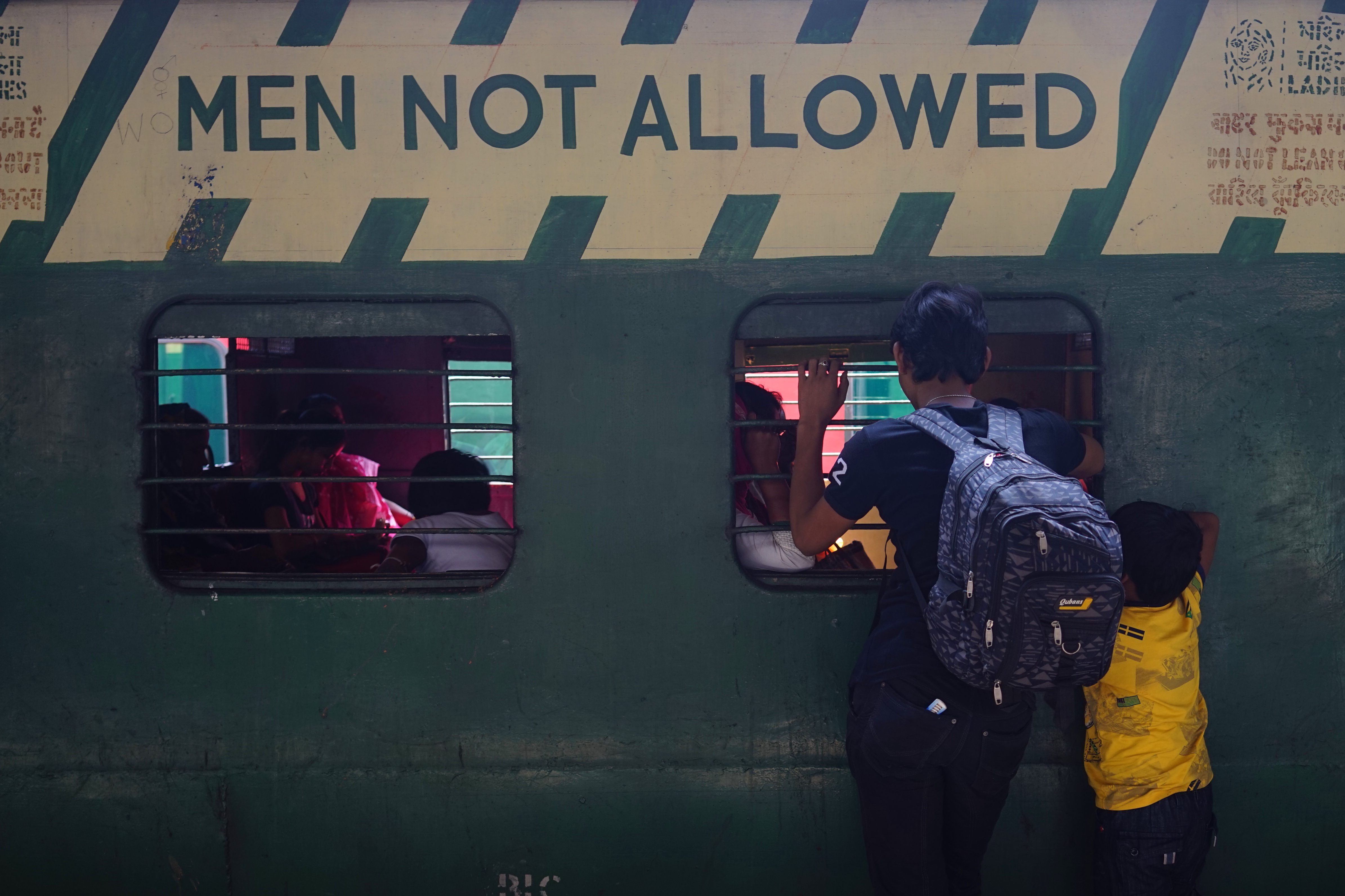 DSC00989 / ladies special trains of india